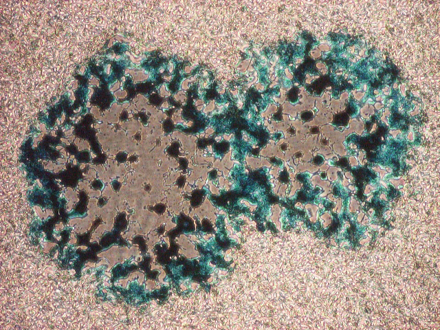 A cell monolayer showing two plaques caused by infection with an oncolytic Vaccinia virus. The color is produced by expression of the E. coli LacZ marker gene, resulting in Beta-galactosidase enzyme activity on the X-Gal substrate.